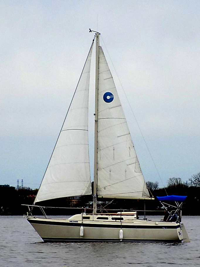 O'Day 25 sailboat named Moon River on on Lac Deschênes, part of the Ottawa River.